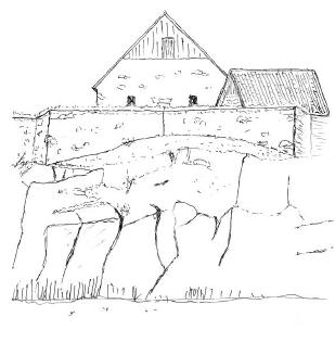 Kongsten fort seen from SE with store house and well house.